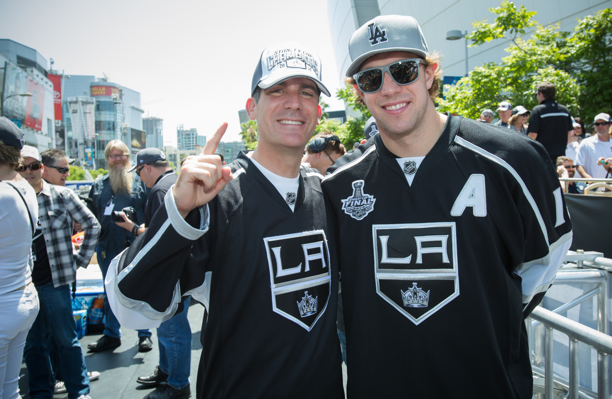 Mayor Garcetti is all smiles with LA Kings player Anze Kopitar on June 16, 2014.